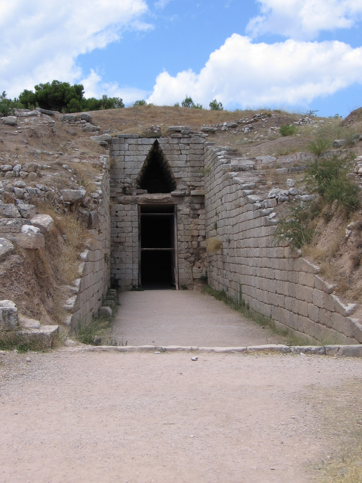 Tomb of Clytemnestra